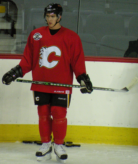 2007 Calgary Flames first round draft pick Mikael Backlund at the Flames rookie camp.